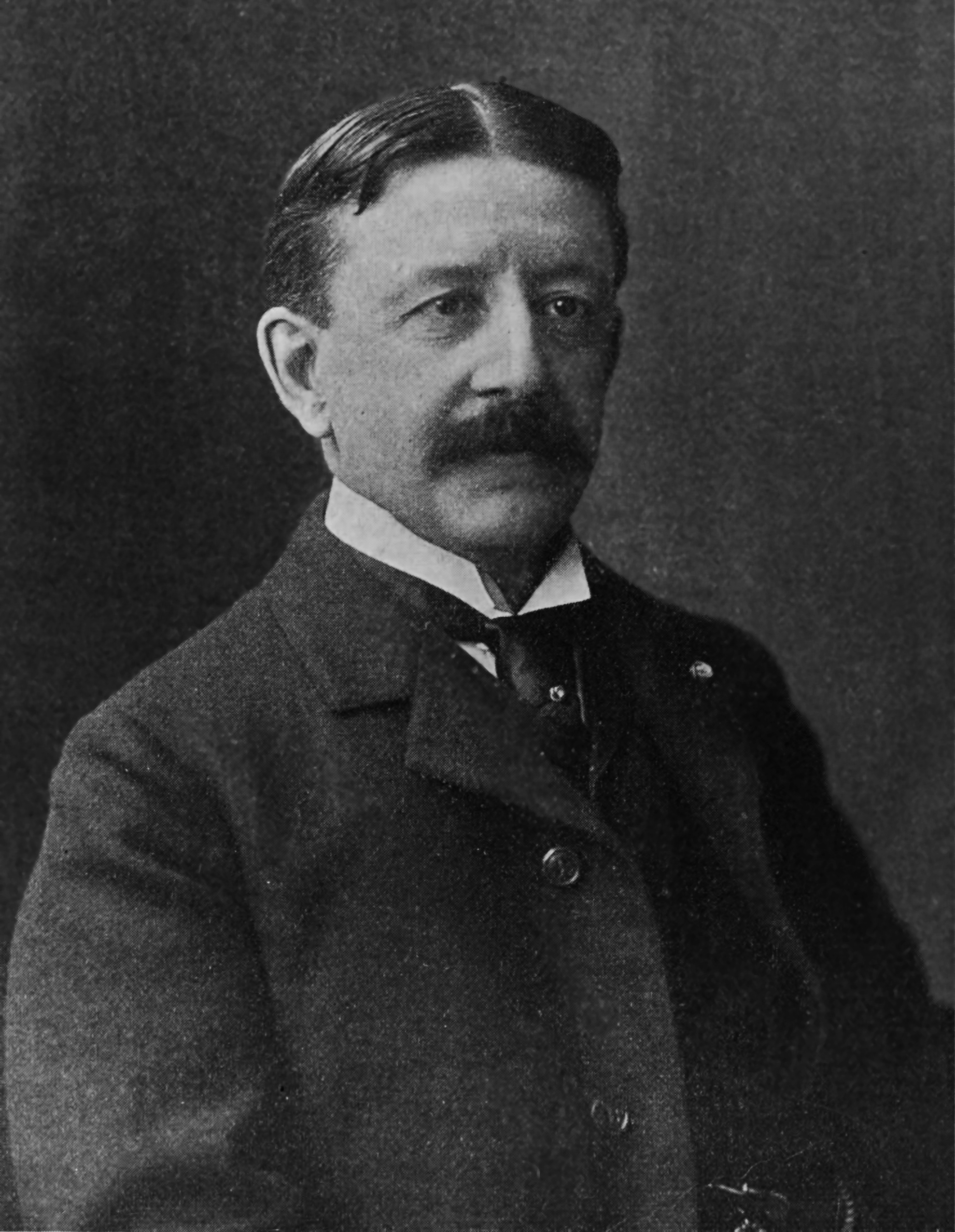 Durham White Stevens, American advisor to Japan who was later assassinated in San Francisco